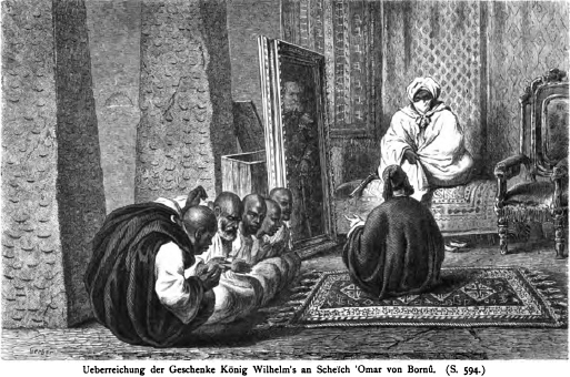 Gustav Nachtigal giving presents from William I to Shehu Umar of Borno on 6 June 1870.